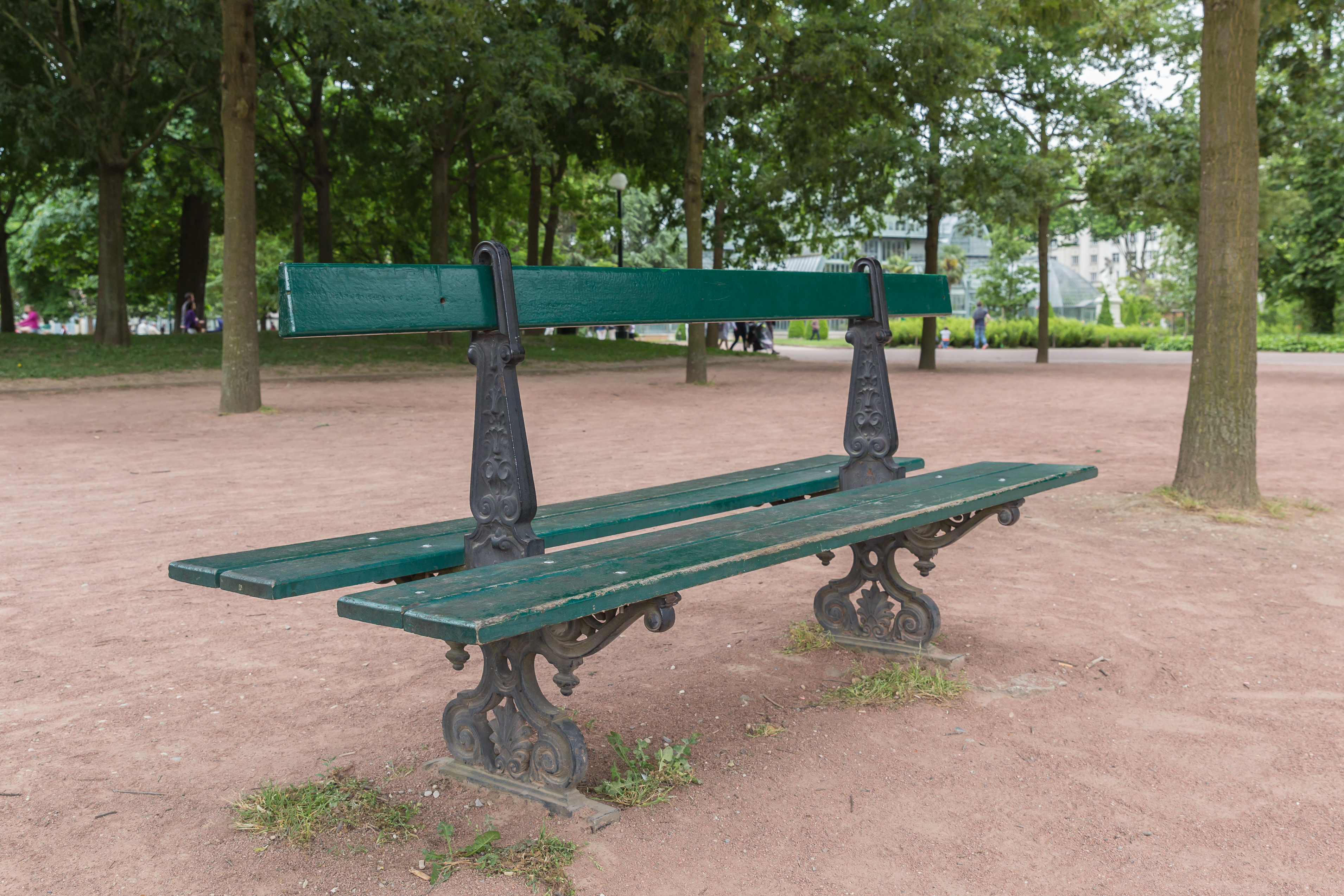 A bench located at parc de la Tête d'Or in Lyon, France.